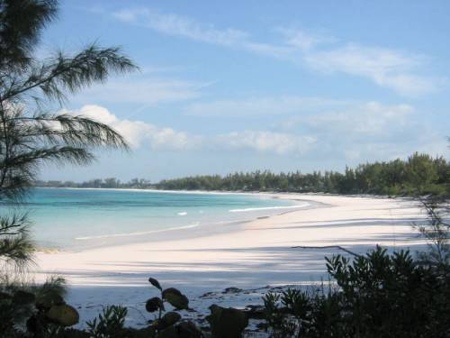 Club Med beach in Central Eleuthera, Bahamas